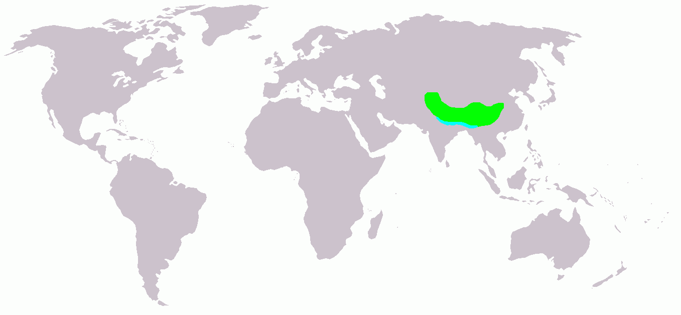 Distribution map of Ibidorhyncha struthersii by L. Shyamal